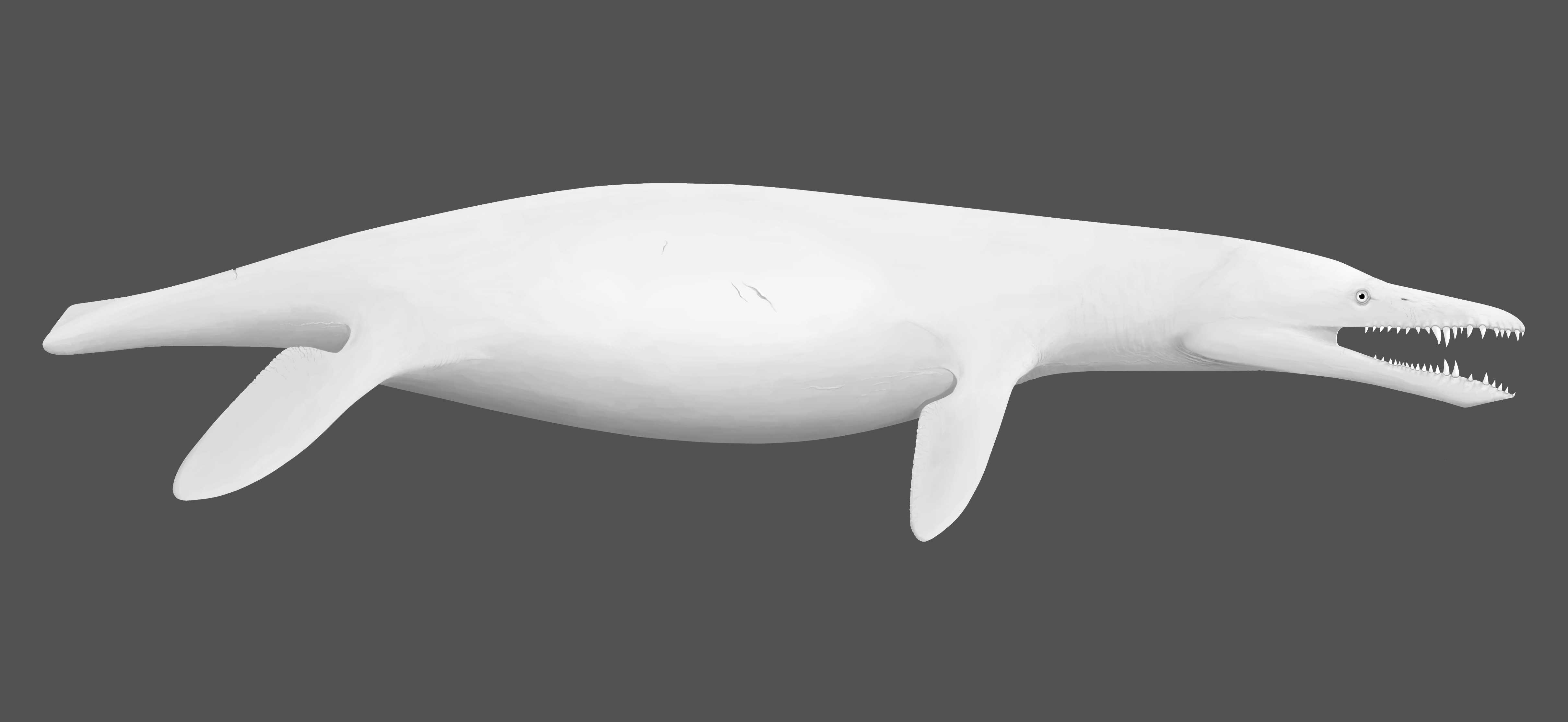 Pachycostasaurus recon based on skeletal mount + head recon in Noe's thesis